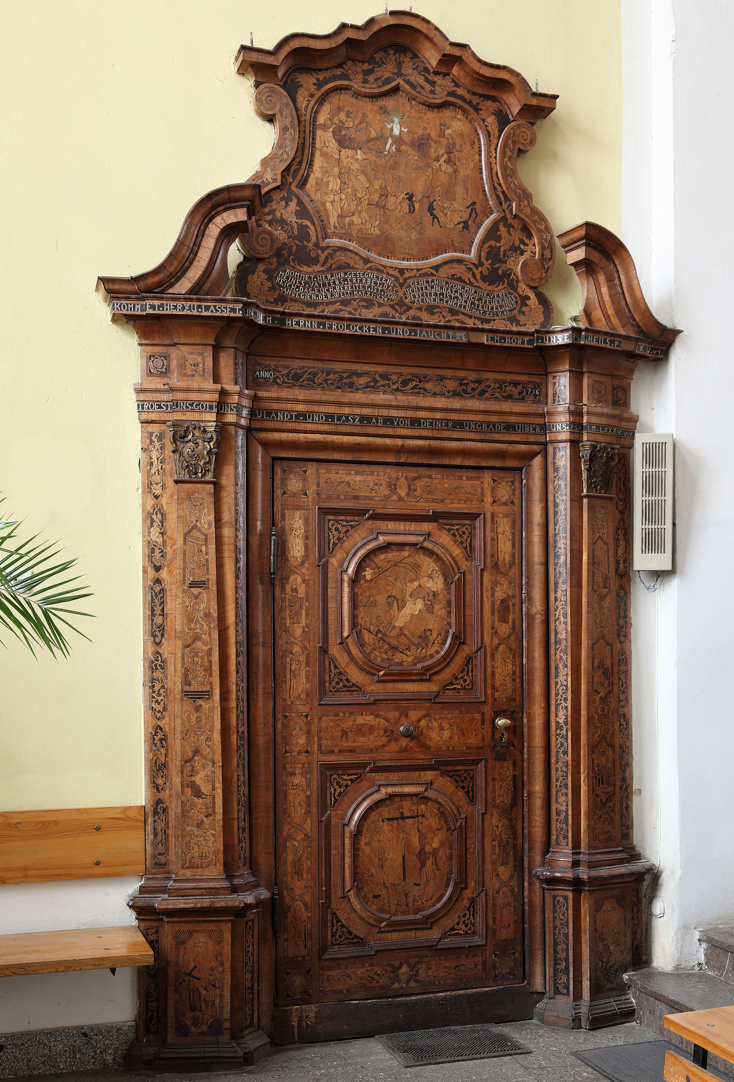 Toruń, Holy Ghost church, inlaid wooden portal in southern aisle.